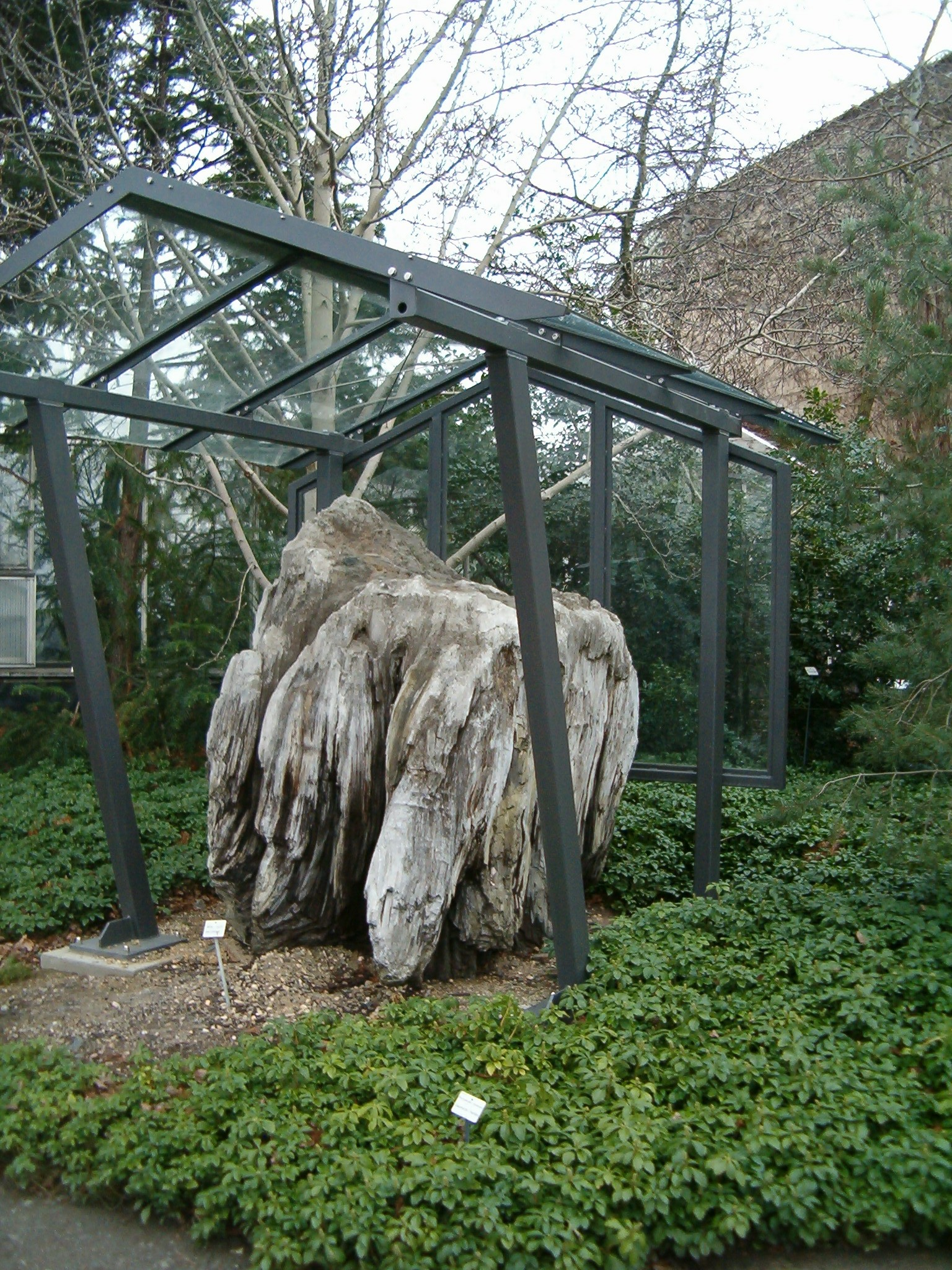 Botanic Garden Dresden, Fossil Tree